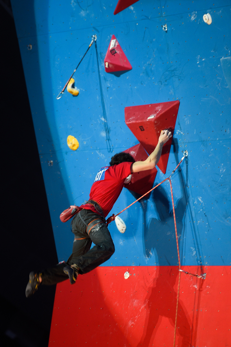 ВИНКЛЕР Даниэль (Швейцария). Скалолазание, трудность, мужчины, полуфинал. III Зимние Всемирные военные игры. Дворец спорта "Большой", Сочи, Россия. 25 февраля 2017. Фото Viktor Berezkin/CISM2017WINKLER Daniel (Switzerland). Sport Climbing, Lead, Men, Semifinal. 3rd CISM World Winter Games. Bolshoy Ice Dome, Sochi, Russian Federation. February 25, 2017. Photo by Viktor Berezkin/CISM2017